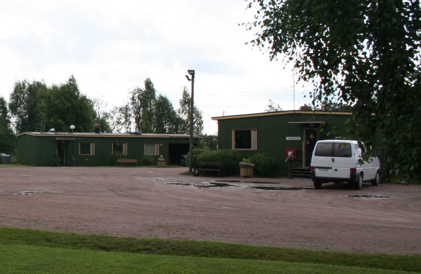 Labor Colony of Hamina, Finland